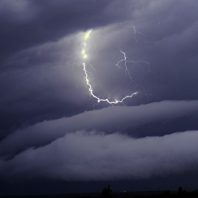 A strike of lightning between clouds.